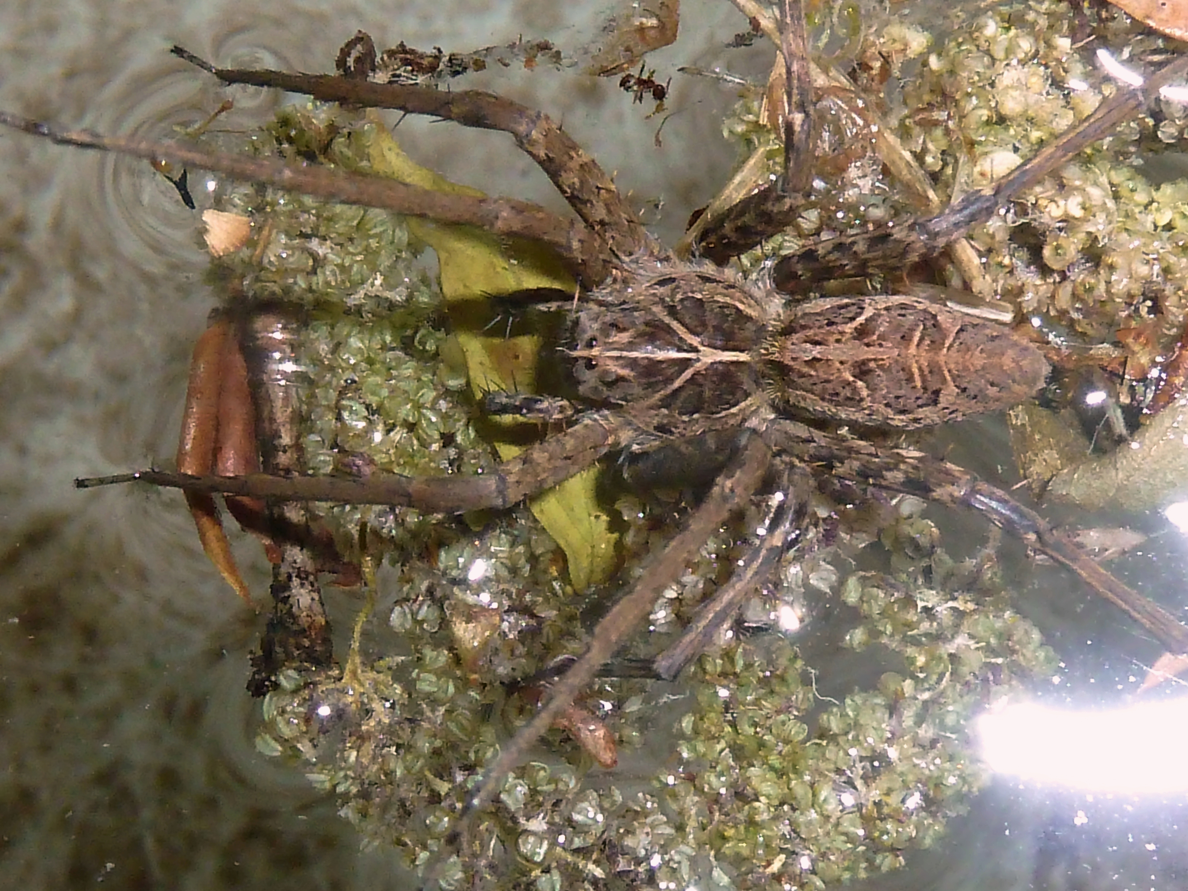 Cispius kimbius walking on plant detritus in a bucket of water, in suburban Pretoria, South Africa.